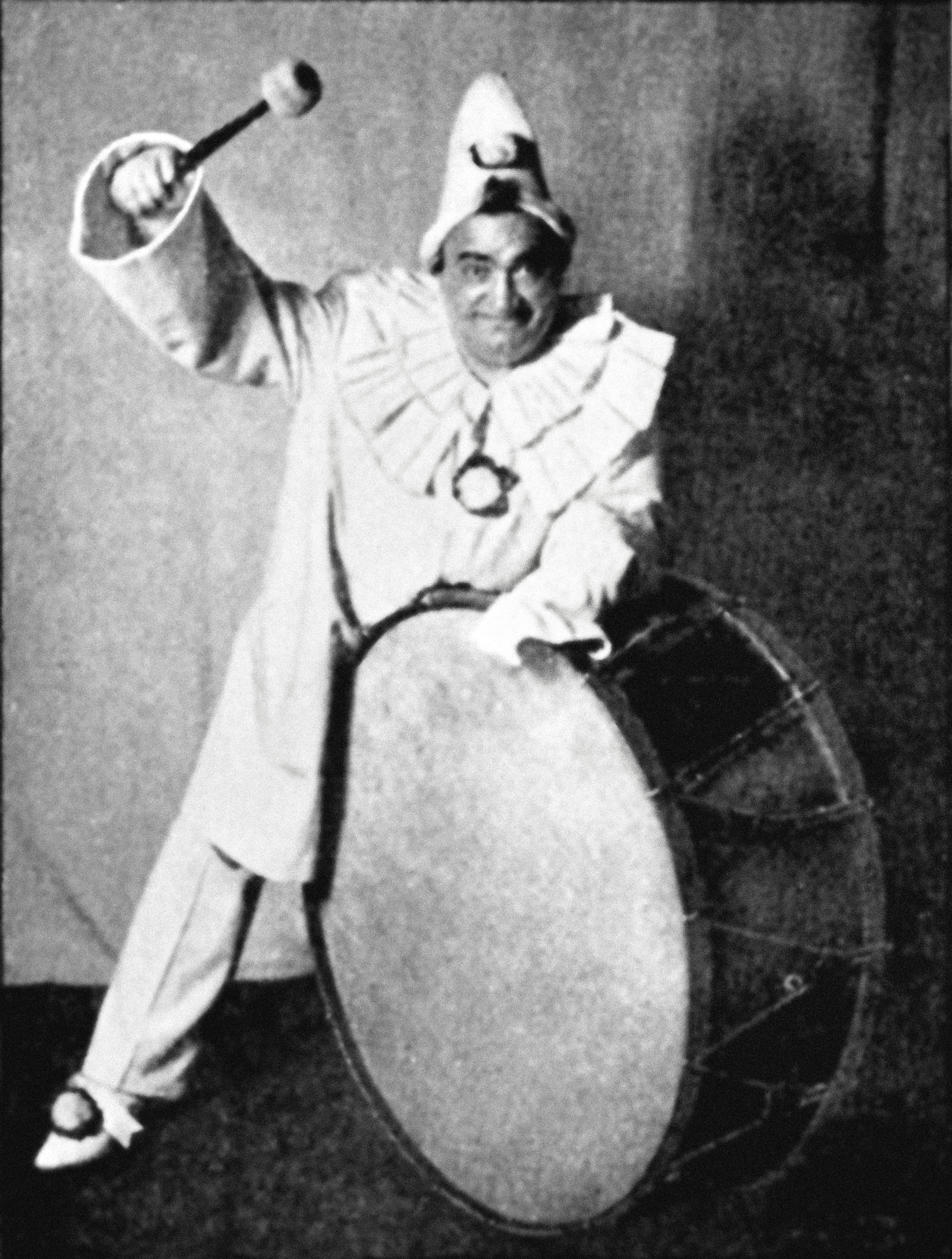 Leoncavallo - Pagliacci - Enrico Caruso as Canio - Mishkin Title: The Victrola book of the opera : stories of one hundred and twenty operas with seven-hundred illustrations and descriptions of twelve-hundred Victor opera records Year: 1917 (1910s) Authors: Victor Talking Machine Company Rous, Samuel Holland Subjects: Operas Publisher: Camden, N.J. : Victor Talking Machine Co. Text Appearing Before Image: ' Text Appearing After Image: NEDDA AND CANIO the cart, but finds Tonio, the Fool, there before him.Giving him a cuff on the ear, he bids him be off,and Tonio slinks away muttering. The boys in thecrowd jeer him, saying: Does that suit you, Mr. Lover? Tonio threatens the boys, who run away. Hegoes grumbling into the theatre, saying, aside: Hell pay for this ere its over! One of the peasants invites the players to thewine shop for a friendly glass. They accept, andCanio calls to Tonio to join them, but he replies fromwithin: Im rubbing down the donkey, whichcauses a villager to remark, jestingly: A Peasant: Careful, Pagliaccio! He only stays behind thereFor making love to Nedda! Canio smiles, but knits his brow and is evidentlyimpressed by the thought. Canio: Eh! What?You think so? coprt MISH CARUSO AS CANIO (He becomes serious, and signing to the peasants tocome round him, he begins to address them.) Un tal gioco (Such a Game !) By Nicola Zerola, Tenor (In Italian) 64206 10-inch, $1.00 The first trace of Canios je